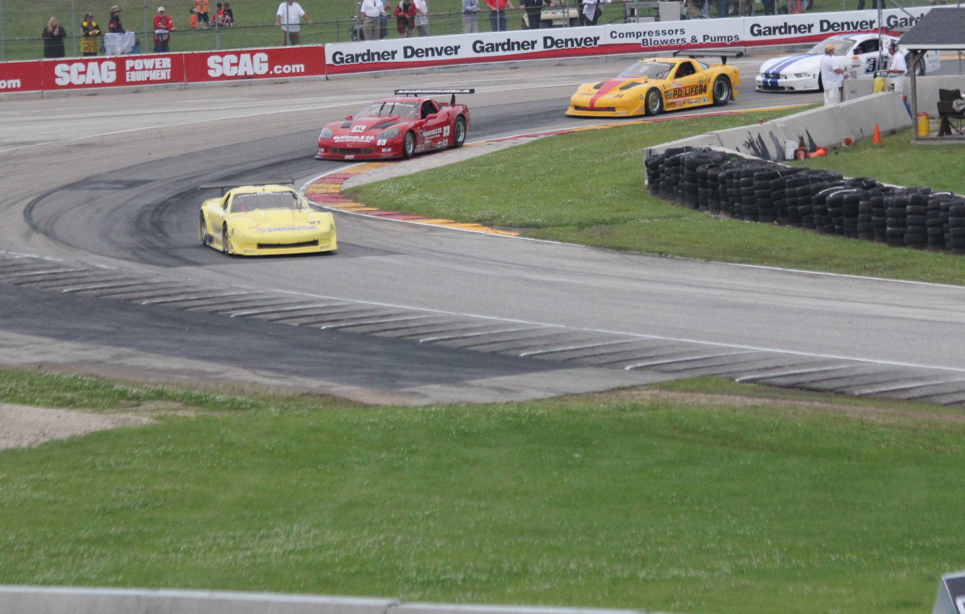 The top four cars in turn 5 during the SCCA Trans-Am Series race at Road America.